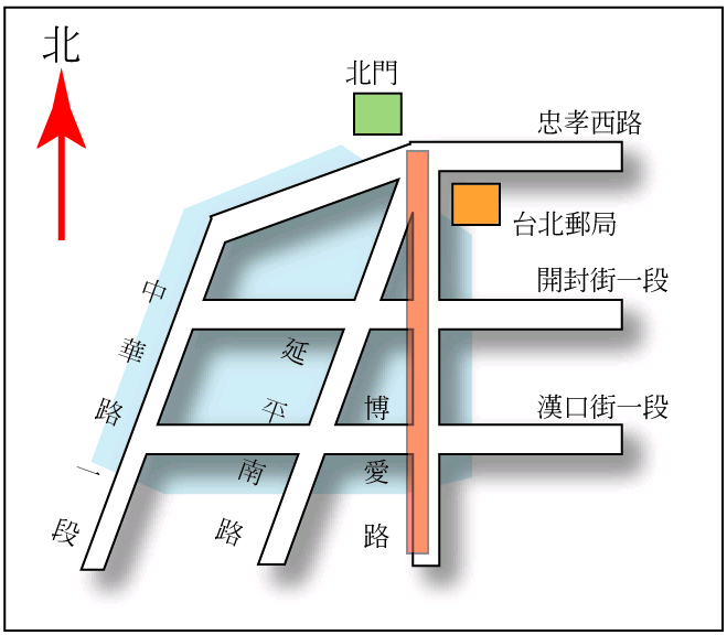 Bo-ai Road Map, Taipei City. Contact Danny.umi for the editable file version.中文（台灣）: 博愛路簡要地圖。我保有原始可編修檔，有興趣者可與我聯絡。